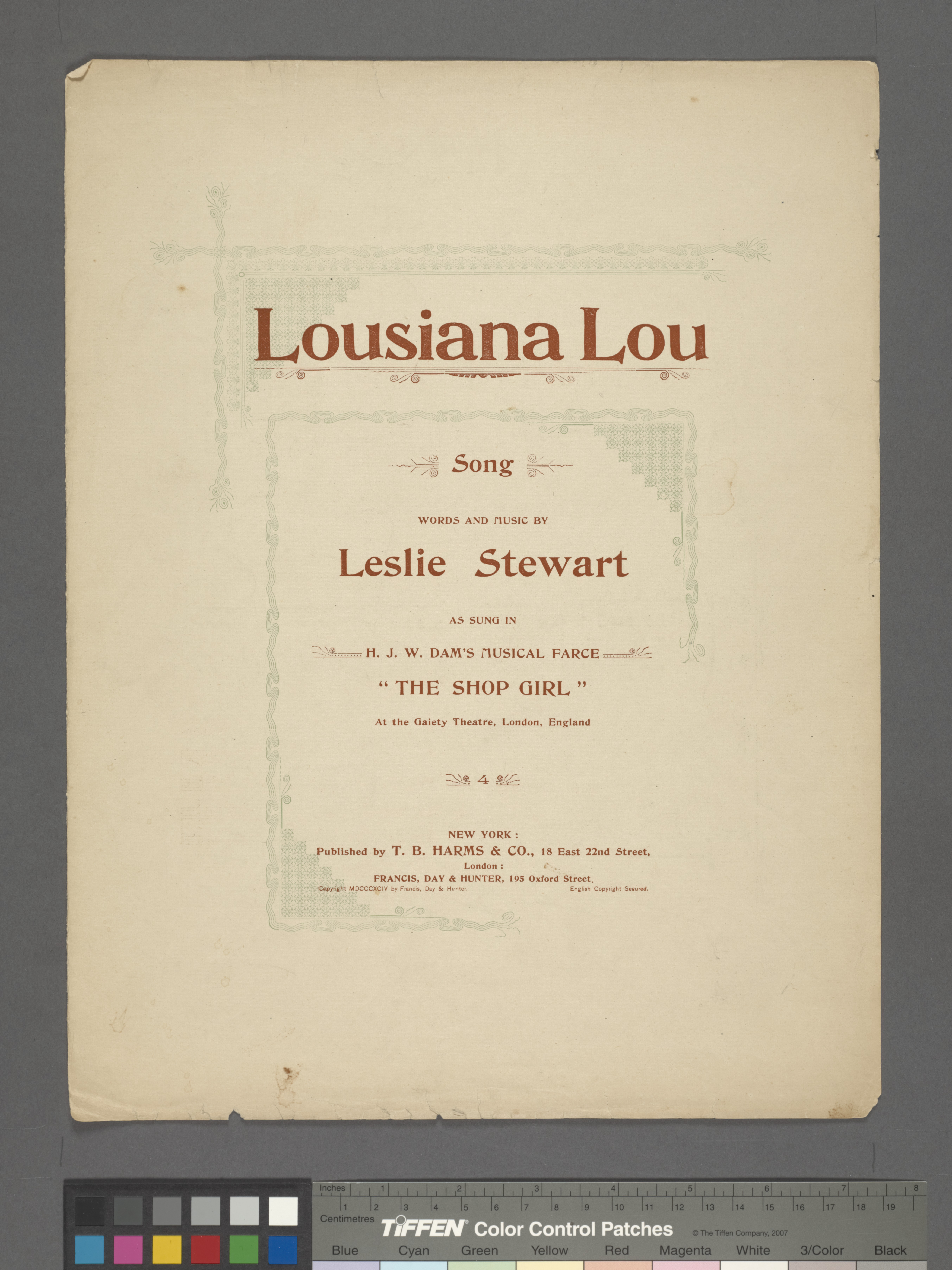 On cover: As sung in H. J. W. Dam's musical farce "The shop girl" at the Gaiety Theatre, London, England. Rear cover has advertisements and first pages of music for the songs "Come back to your mother, Tom," "Her wedding bells will ring today!" and "Some one's little girl." Statement of responsibility : words and music by Leslie Stewart [i.e. Stuart].